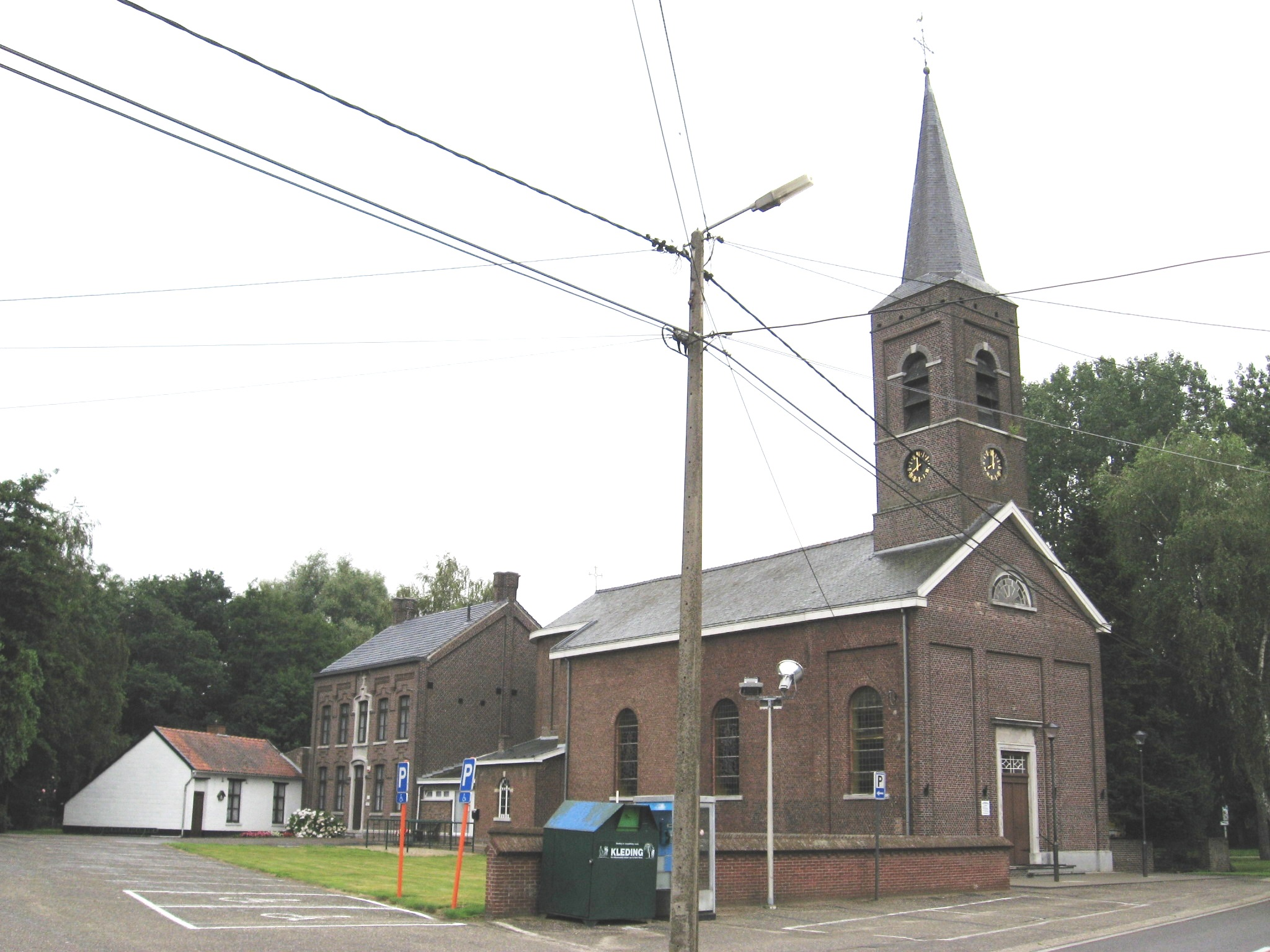 Church of Saint Quirinus in Zolder (Viversel), Heusden-Zolder, Limburg, Belgium